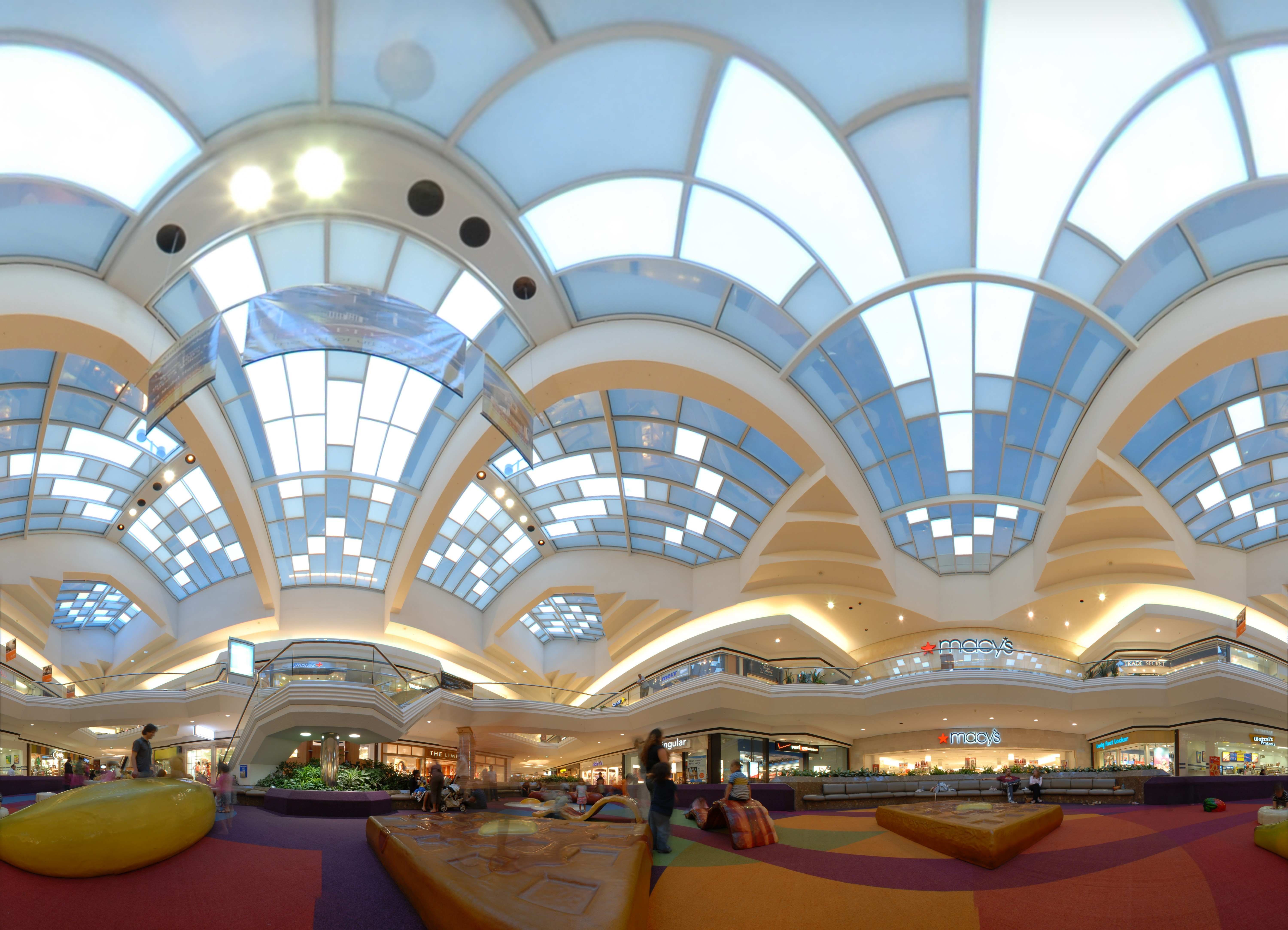 Cherry Creek Mall in Denver, view of atrium and children's playground. (taken May. 5, 2007). Constructed from six images shot with Nikon D200 using Sigma 8mm circular fish-eye. Images assembled using hugin. © 2007 Patrick Charles